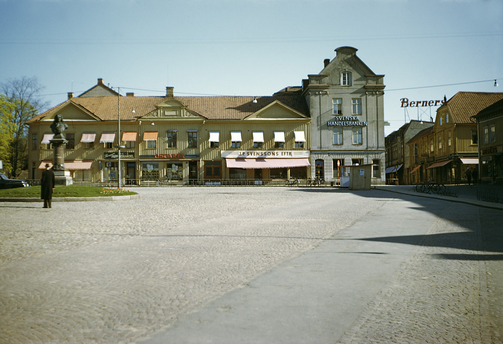 The Main Square in Alingsås. Stora torget i Alingsås. Parish (socken): Alingsås Province (landskap): Västergötland Municipality (kommun): Alingsås County (län): Västra Götaland Photograph by: Fredrik Bruno Date: May 1948 Format: Colour slide See a recent photo of the same view: Kulturmiljöbild: 16001000300624 Kulturmiljöbild: 16001000239828 (Persistent URL) Read more about the photo database (in english)